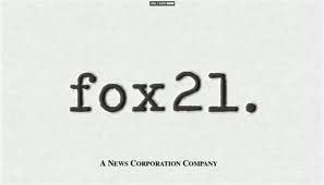 This is the logo for the production company, Fox 21